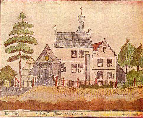 Havezate Beugelskamp, Denekamp, Overijssel, The Netherlands